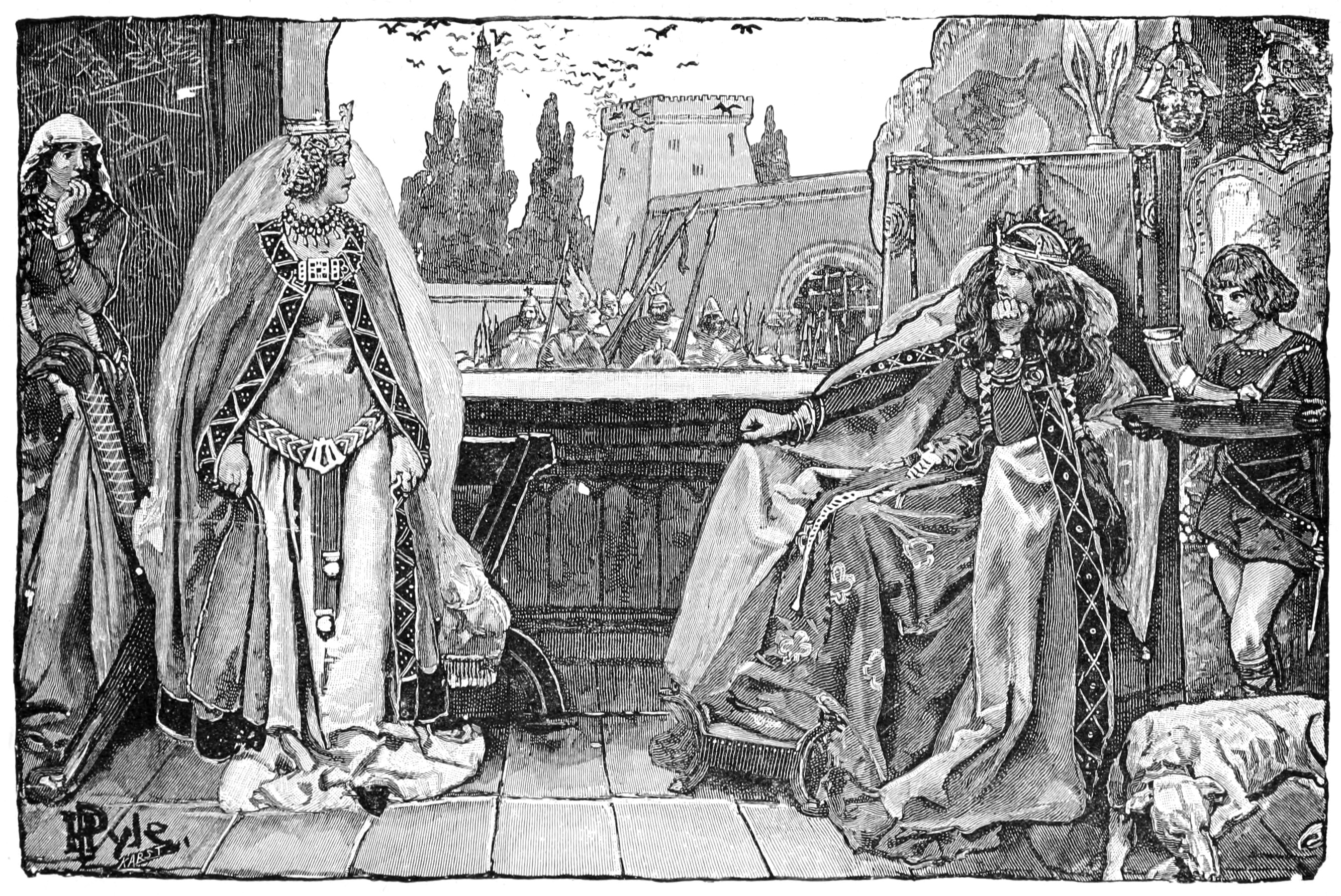 Kriemhild and Brunhild quarrel.